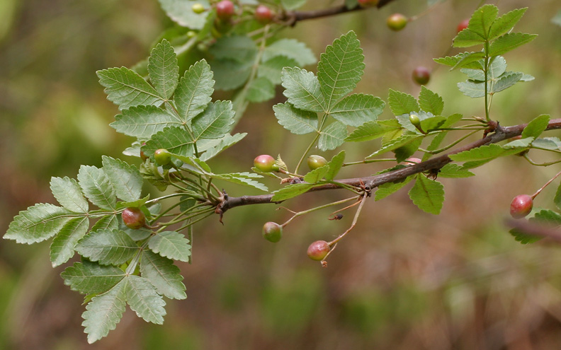 Description corrected as Mexican Linaloe, Indian Lavender or elemi-gum Bursera penicillata syn. Bursera delpecianum in Hyderabad, India as per links &